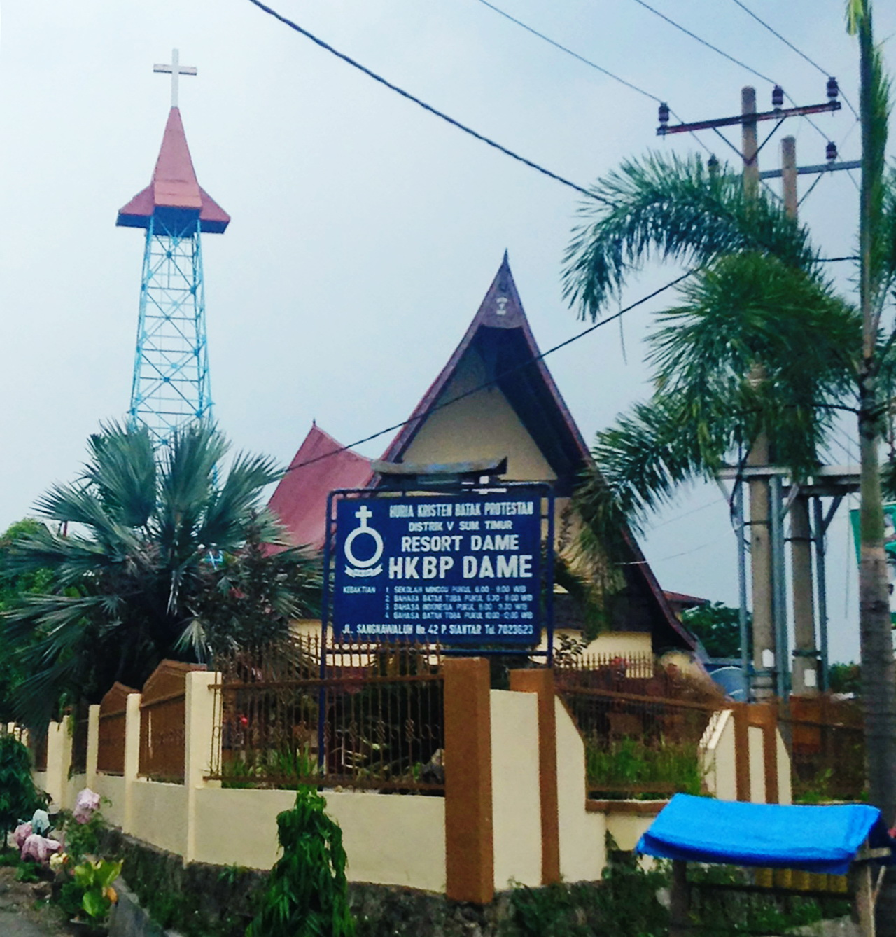 HKBP Dame, Res. Dame, Church in Siantar Timur, Pematangsiantar